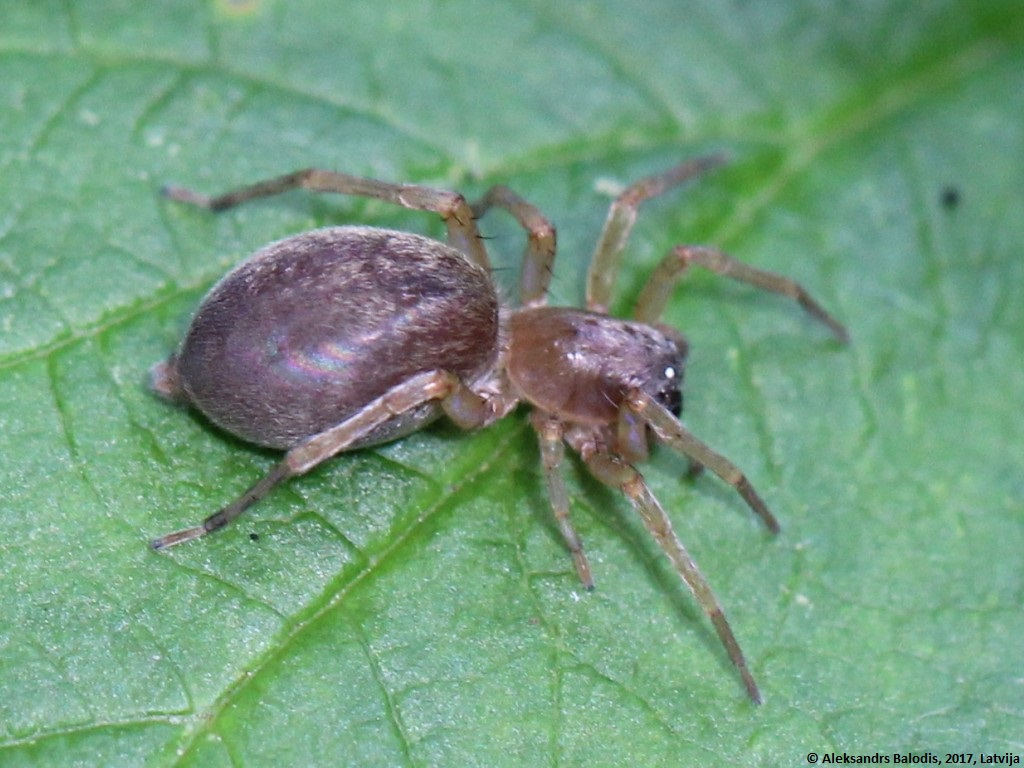 Clubiona stagnatilis